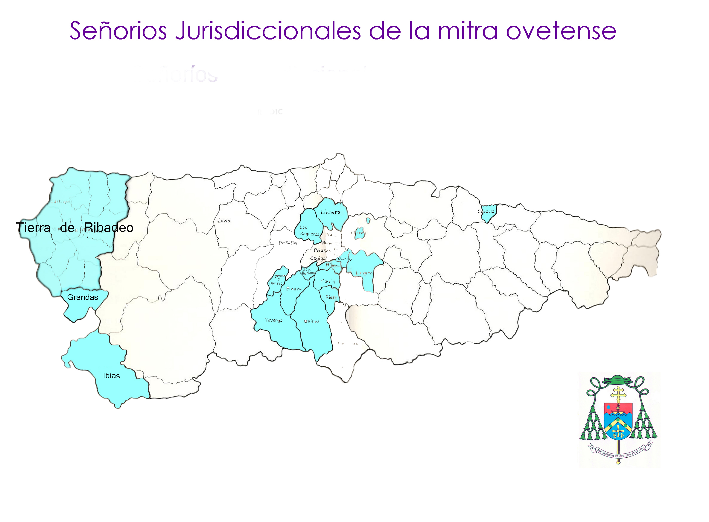 Adapted version of Map included in the book "Los señorios episcopales en Asturias" by Ramona Pérez de Castro